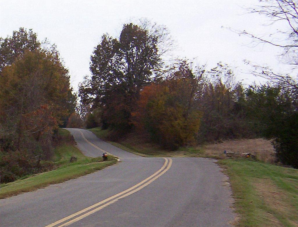 Nutbush, Tennessee. Scenic view. I made the photo myself, feel free to use it. The image is also published at my private website I am the author and copyright holder of the image and release all rights to it into the public domain. Attribution is appreciated but not required.